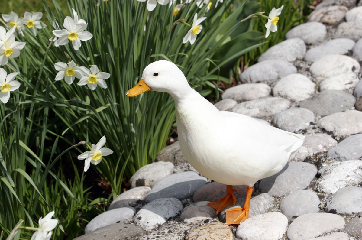 photo of nine months old aduld white call duck drake